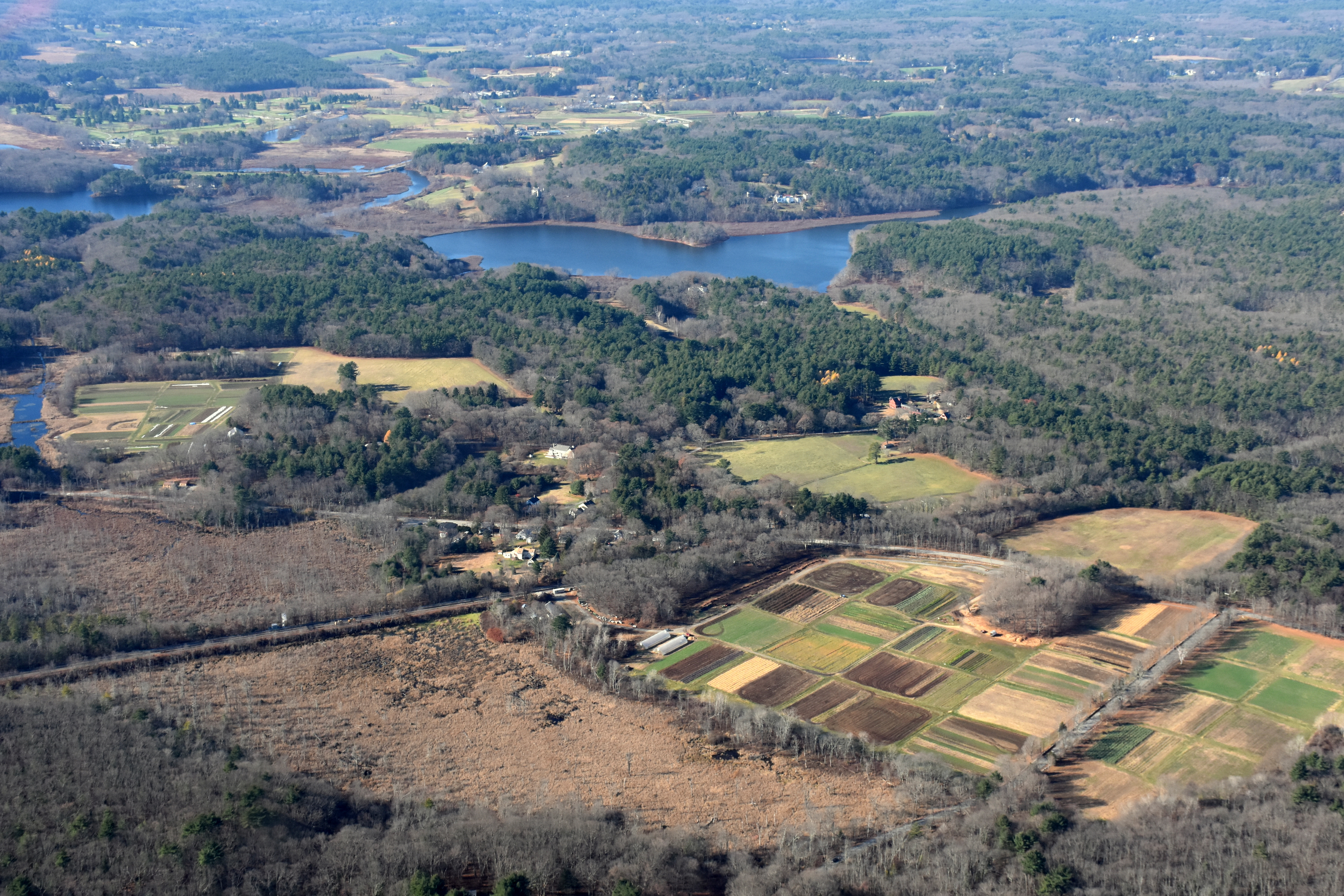 Aerial view of the Food Project farm (foreground) and Sudbury River (background) at the intersection of Concord Road (Route 126) and Baker Bridge Road in Lincoln, Massachusetts.